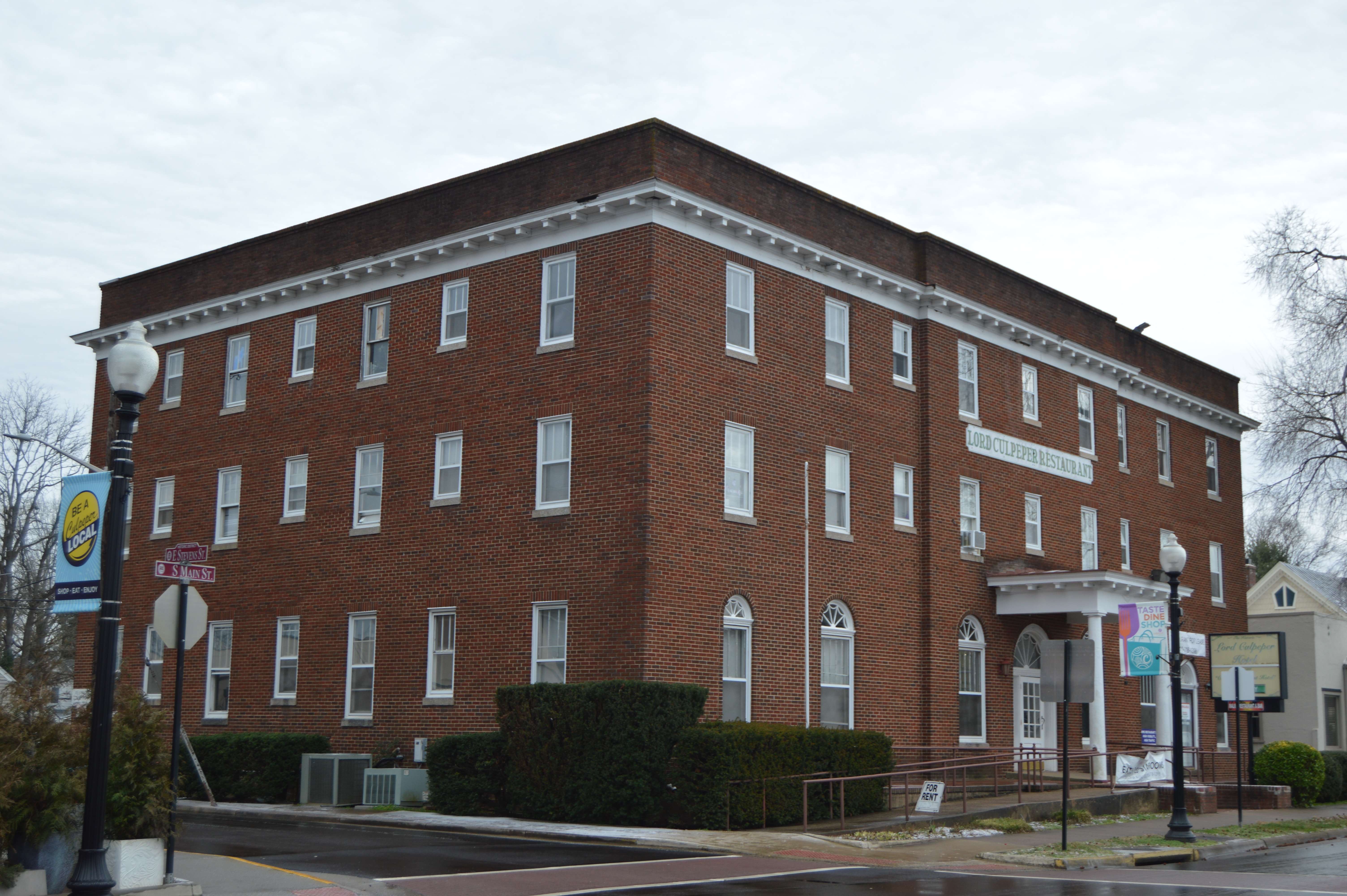 Front and northern side of the Lord Culpeper Hotel, located at 401 S. Main Street in Culpeper, Virginia, United States. Built in 1933, it is listed on the National Register of Historic Places.